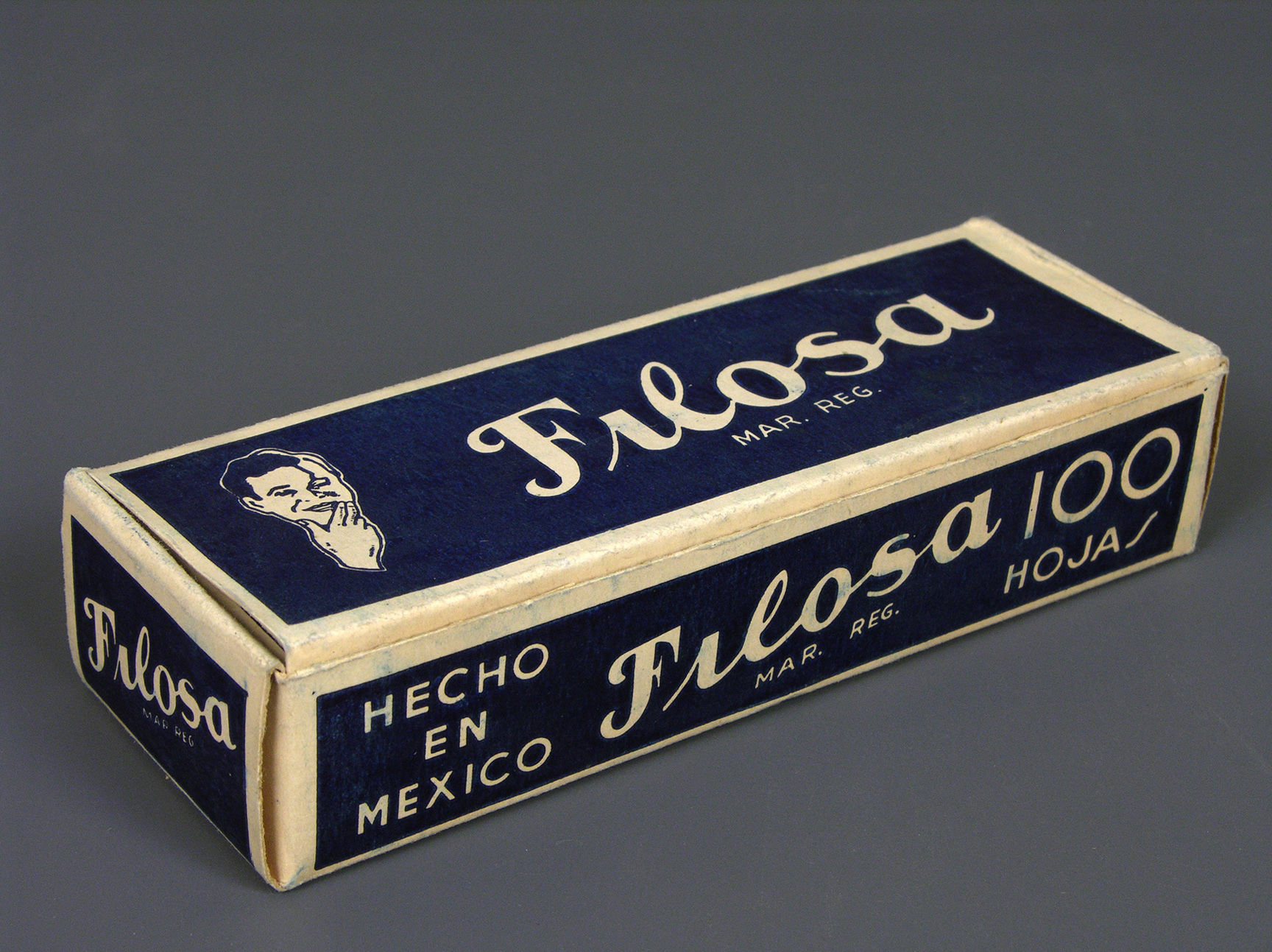 Filosa razor blades Cardboard box mid 20th century